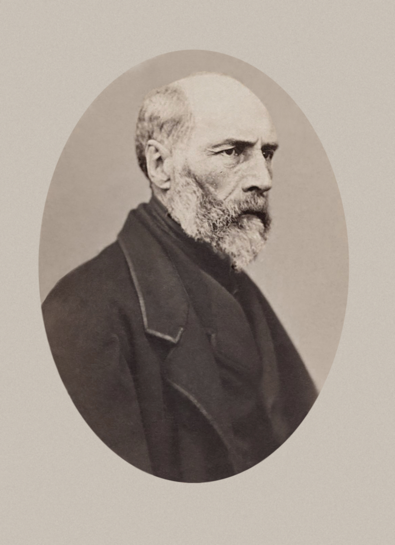 Armand Barbès (1809 - 1870), french politician, Republican revolutionary.